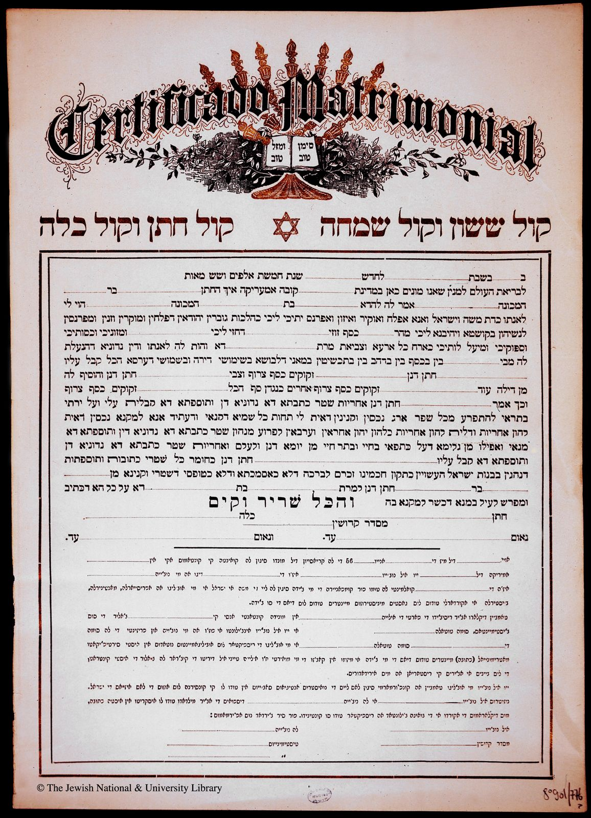 Ketubah from The Ketubot Collection of the National Library of Israel